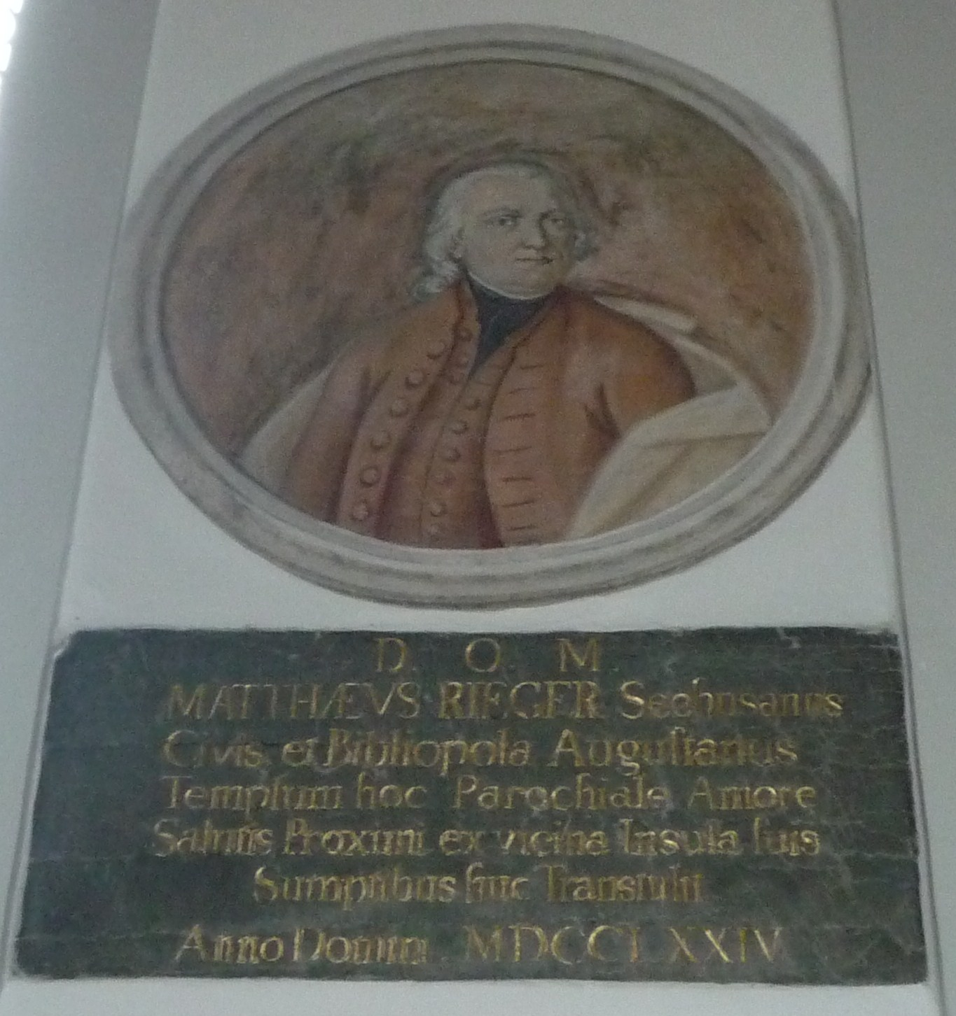 Matthäus Rieger 1770